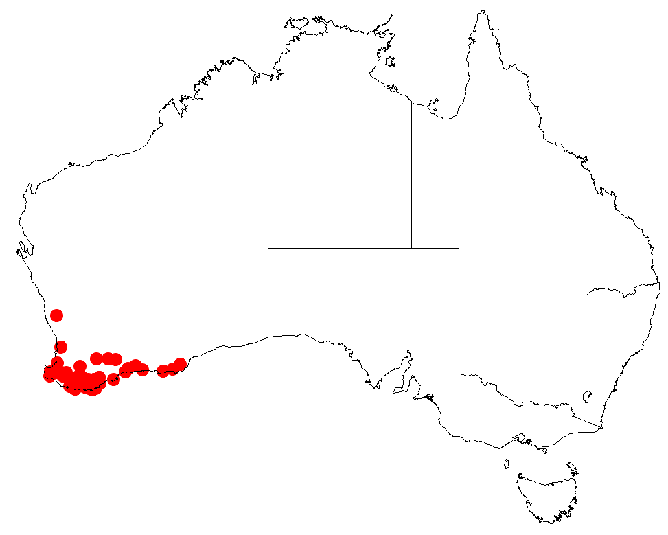 Isopogon attenuatus Occurrence data downloaded from Australasian Virtual Herbarium on 30 October 2018 from